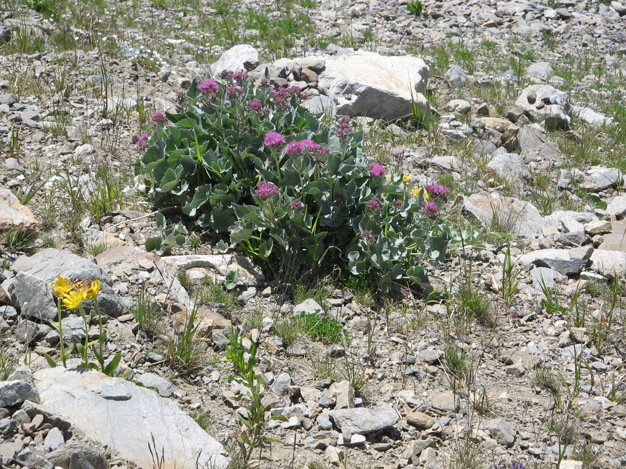 Adenostyles leucophylla